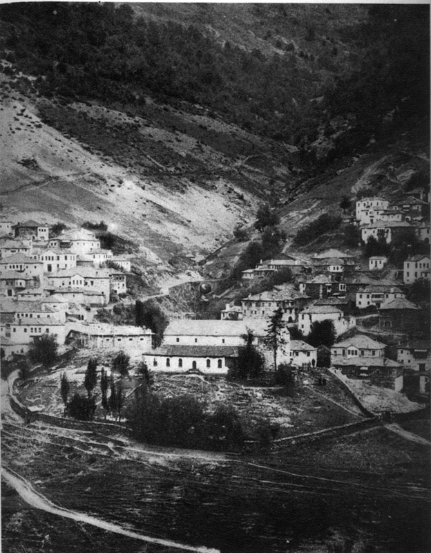 Pisoder, Greece